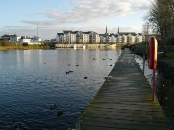 Photo of Enniskillen and river Erne, County Fermanagh, Northern Ireland